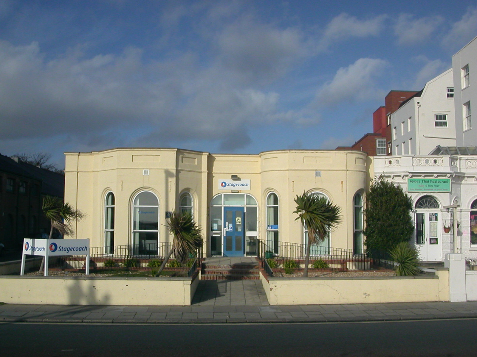 Stagecoach South bus office at 19–20 Marine Parade, Worthing, West Sussex, England, seen from the south. Built in the 19th-century as a four-storey hose; reduced to one storey in the 1970s. The bus depôt is in Library Place behind the house.